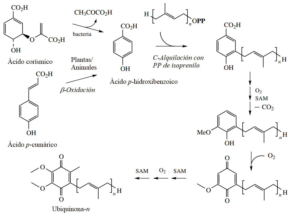 Required for shikimic acid page in spanish